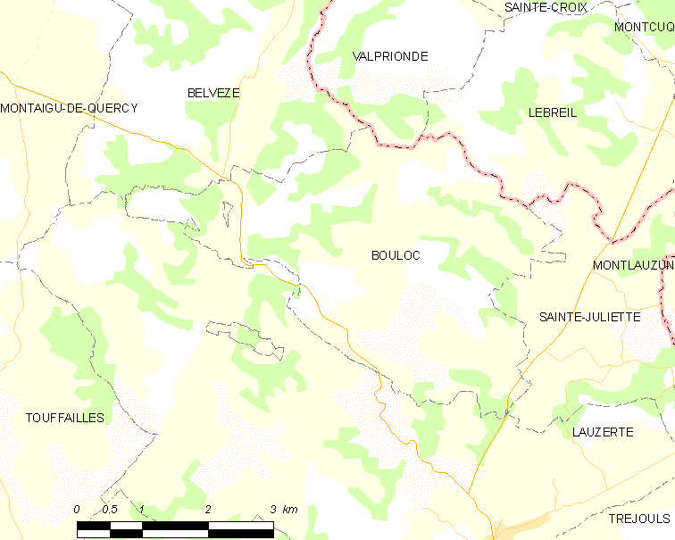 Map of French municipality Bouloc